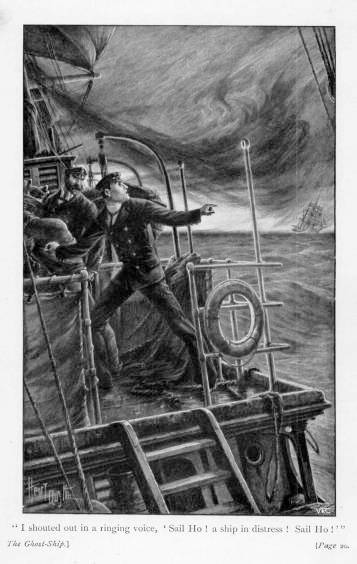 Illustration from a novel, The Ghost Ship by John Conroy Hutcheson.